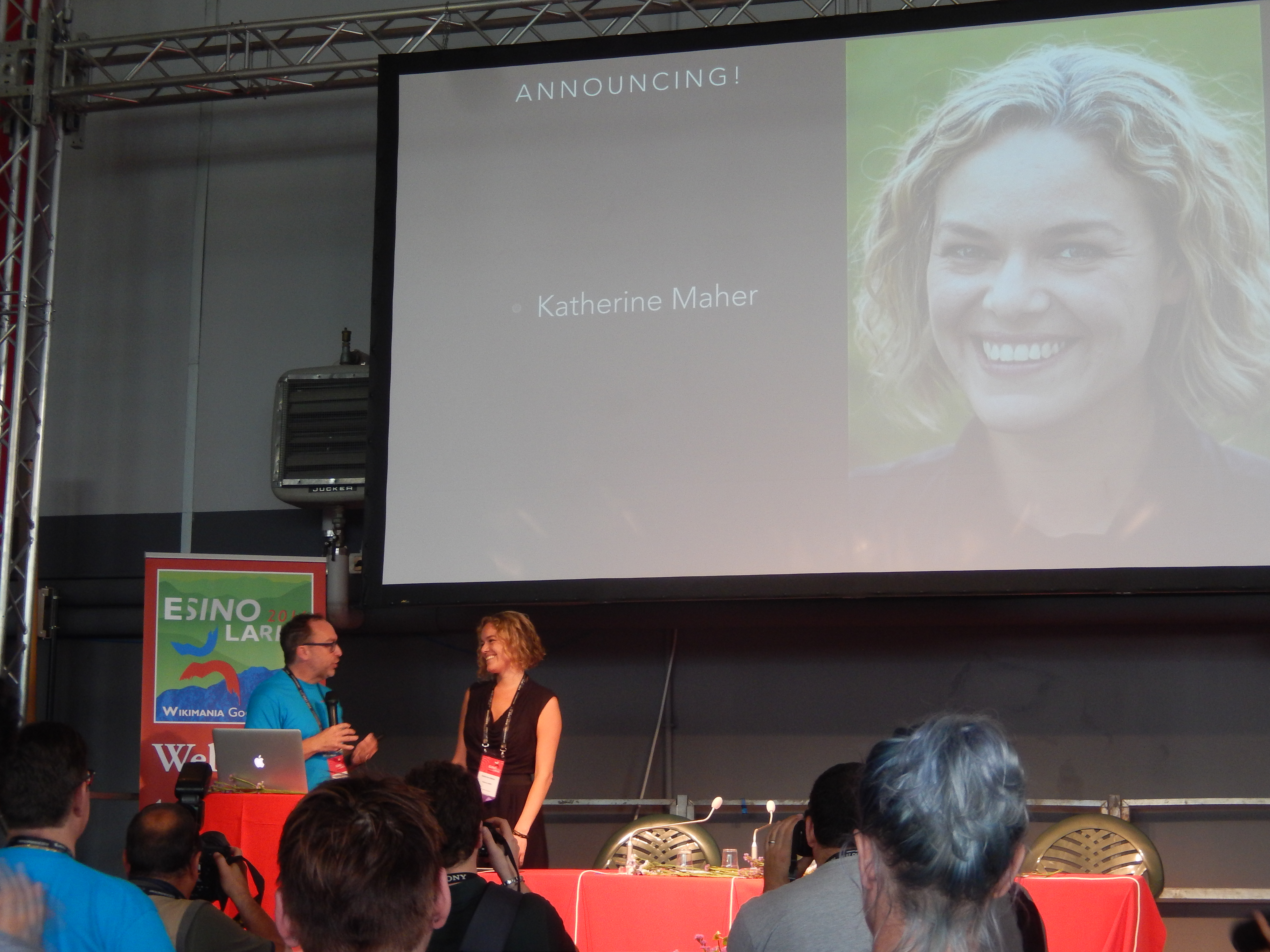 WIKIMANIA 2016, Esino Lario